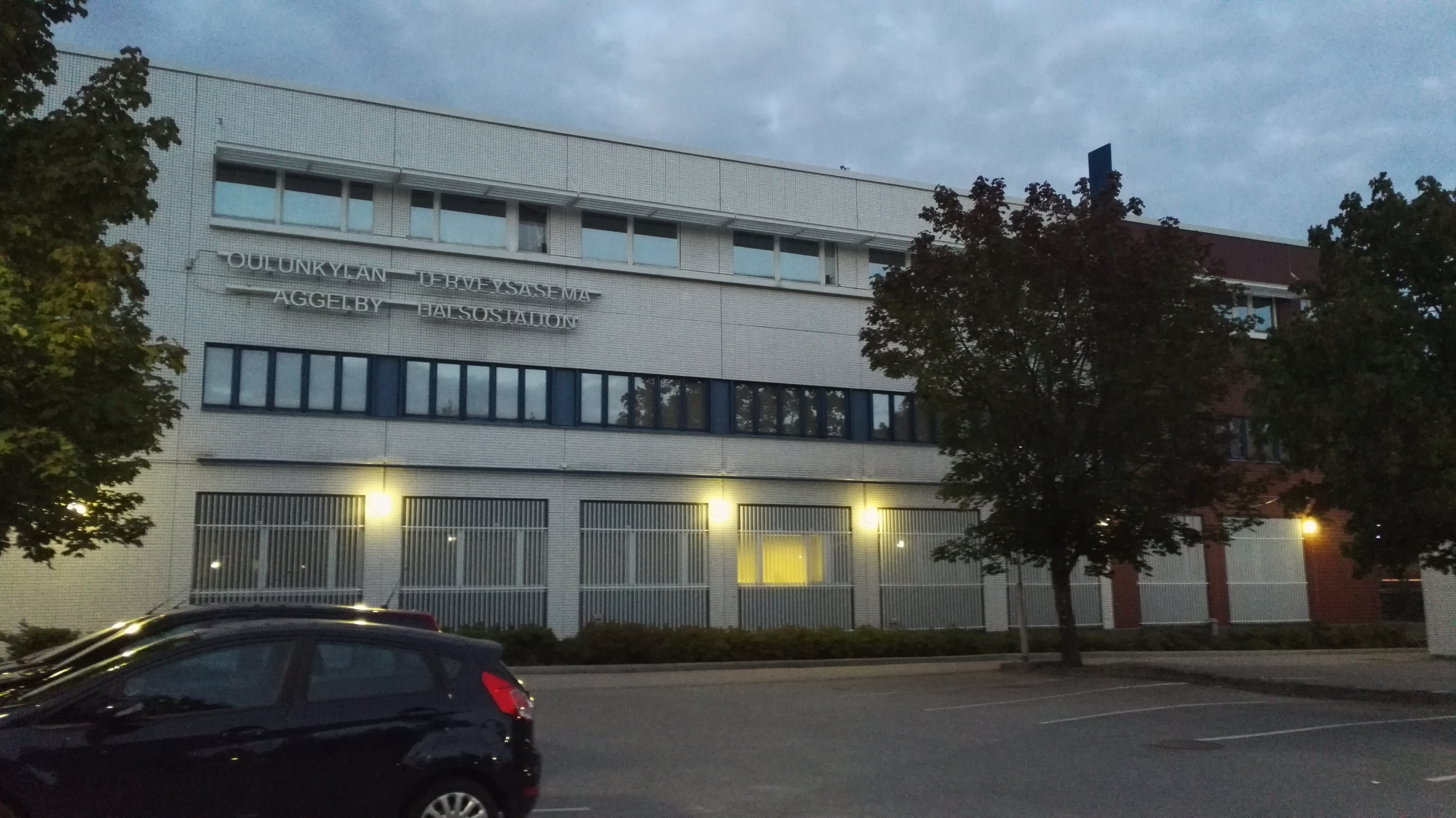 Health centre in Helsinki, Finland.